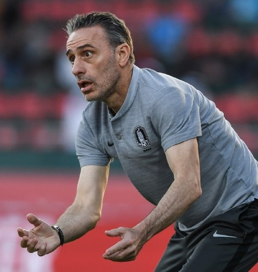 Paulo Bento managing South Korea at 2019 AFC Asian Cup